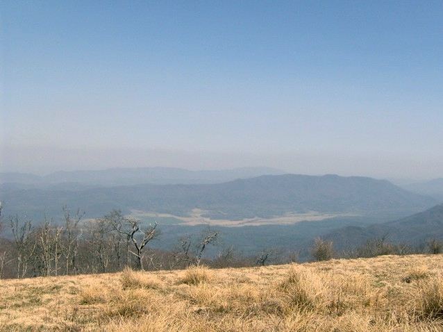 Cades Cove, the white strip at the center, looking north from the summit of Gregory Bald (the mountain is on the border of Tennessee and North Carolina in the GSMNP). Rich Mountain rises above the cove.